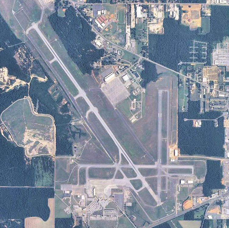 USGS digital orthophoto of Mobile Regional Airport in Alabama